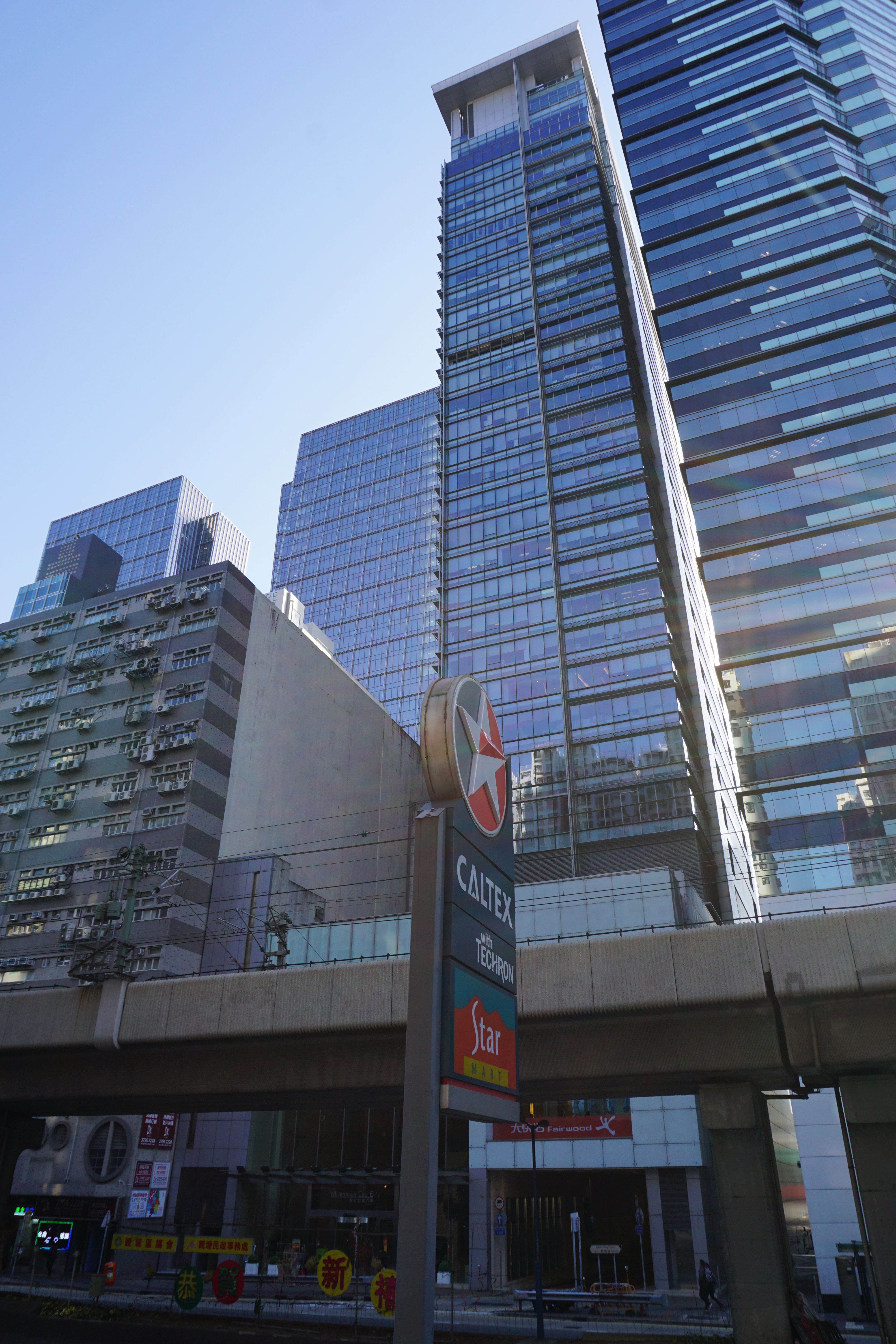 Millennium City 6 in Ngau Tau Kok, Hong Kong.